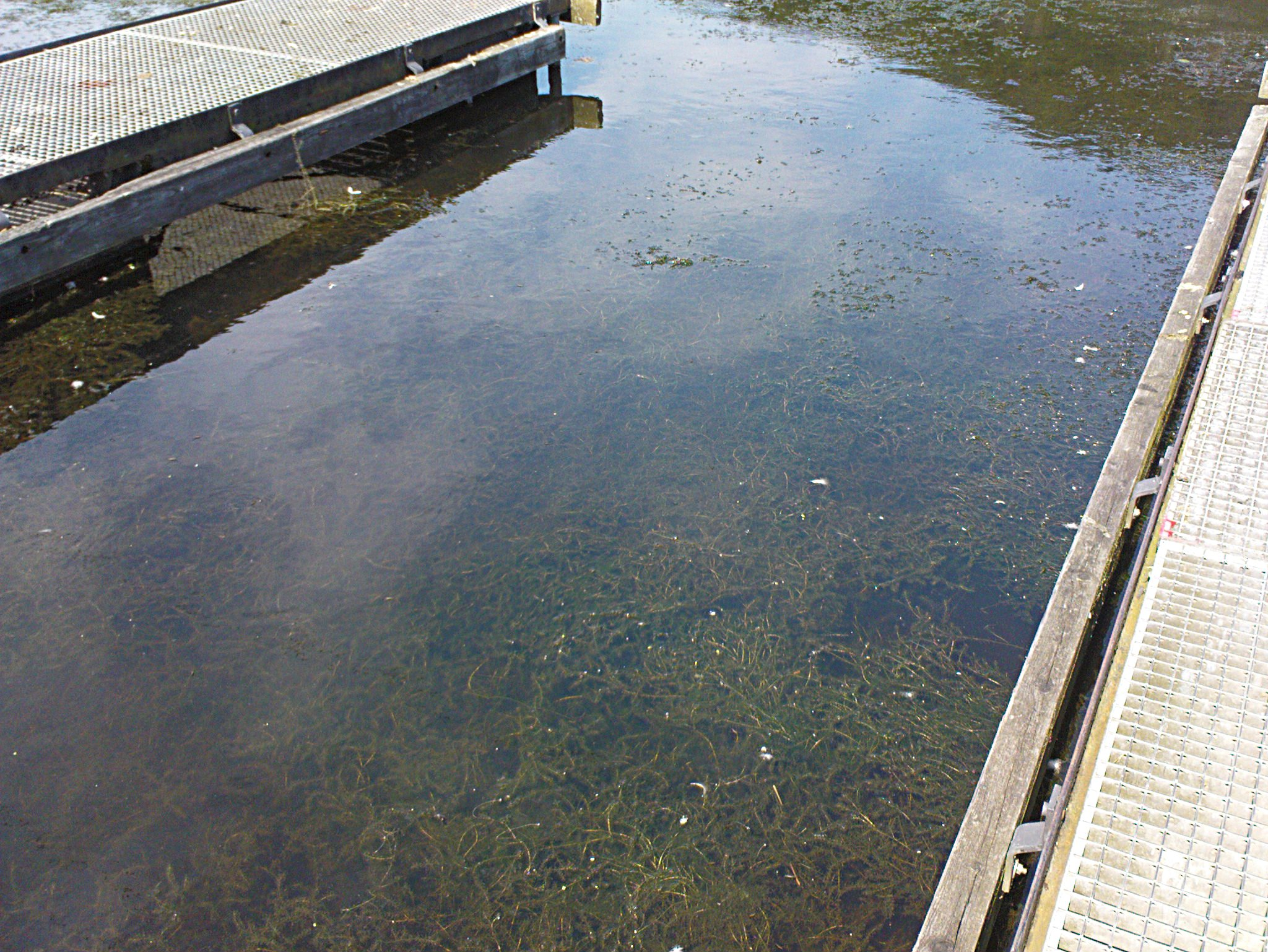 In summer 2008 the population of Elodea plants in the seas along the river Ruhr increased dramatically